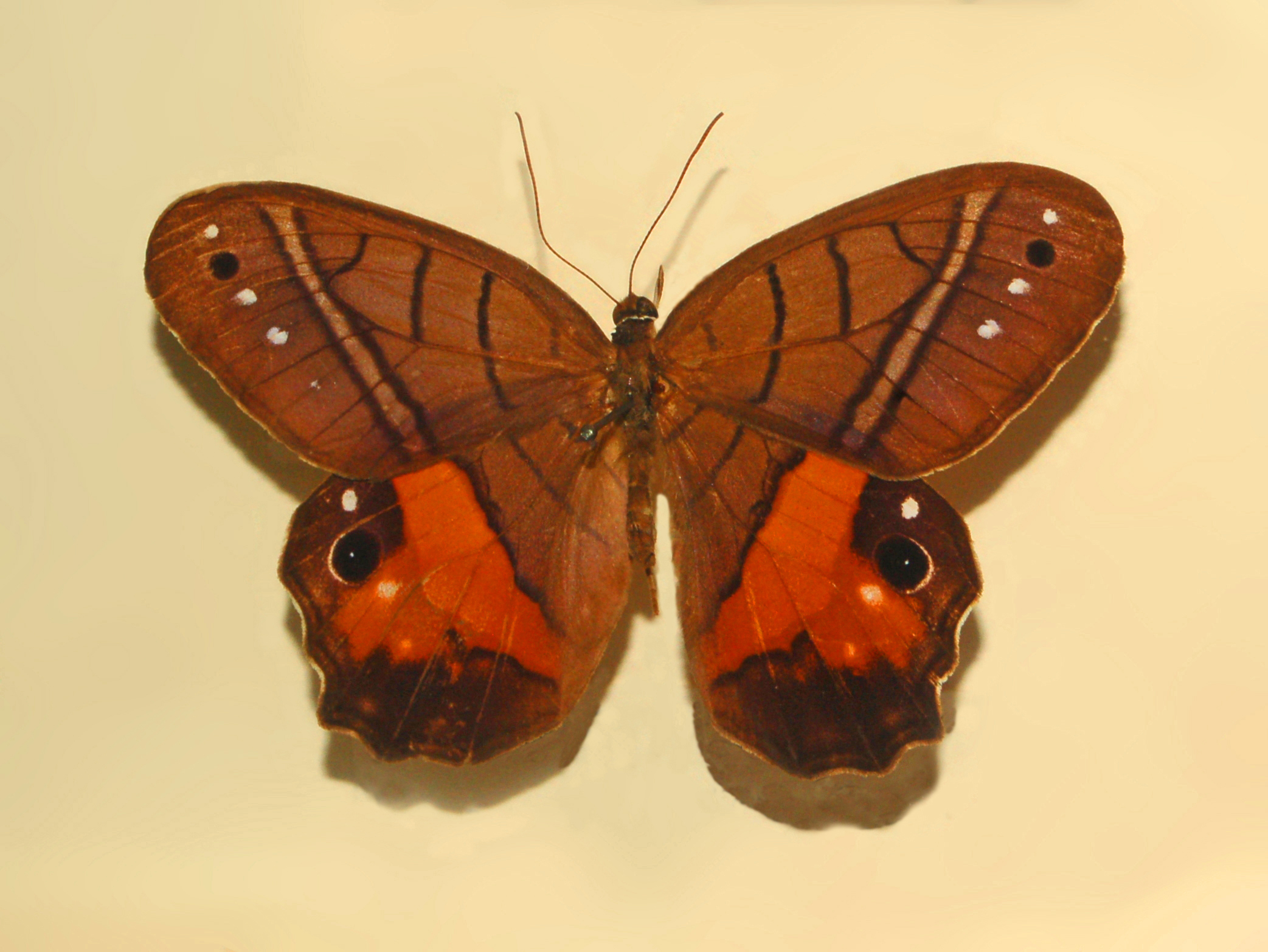 Pierella helvina from Colombia. Mounted specimen